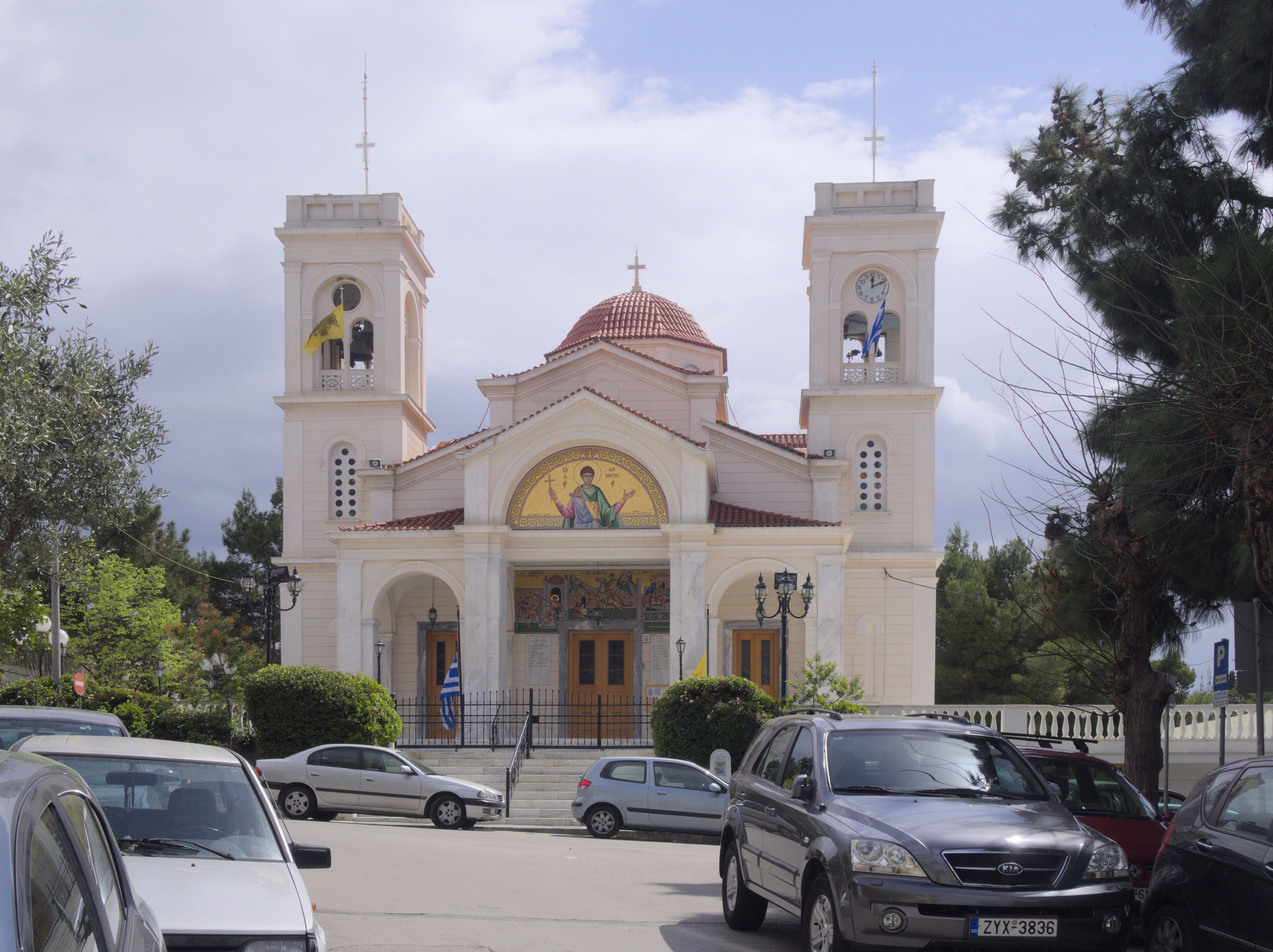 Saint Demetrius metropolitan church of Kifisia, built in 1882.